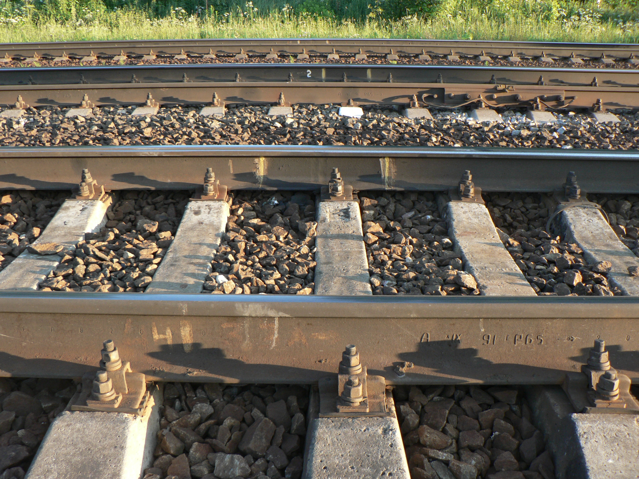 Conjungated junction on rail track. Near Malino platform on Oktyabrskaya railway, Russia.